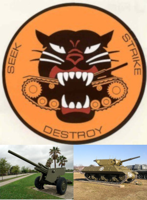 A combination of three images: The WW2 US Tank Destroyer Logo and two types of Tank destroyers below: The M5 3 inch Towed Gun and the M10 self propelled anti tank gun.